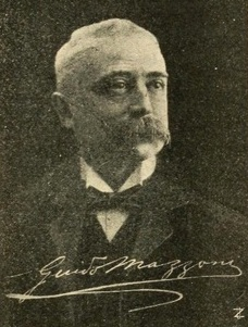 Portrait of the Italian poet Guido Mazzoni. In "Illustri italiani contemporanei" by Onorato Roux (Firenze, 1908)